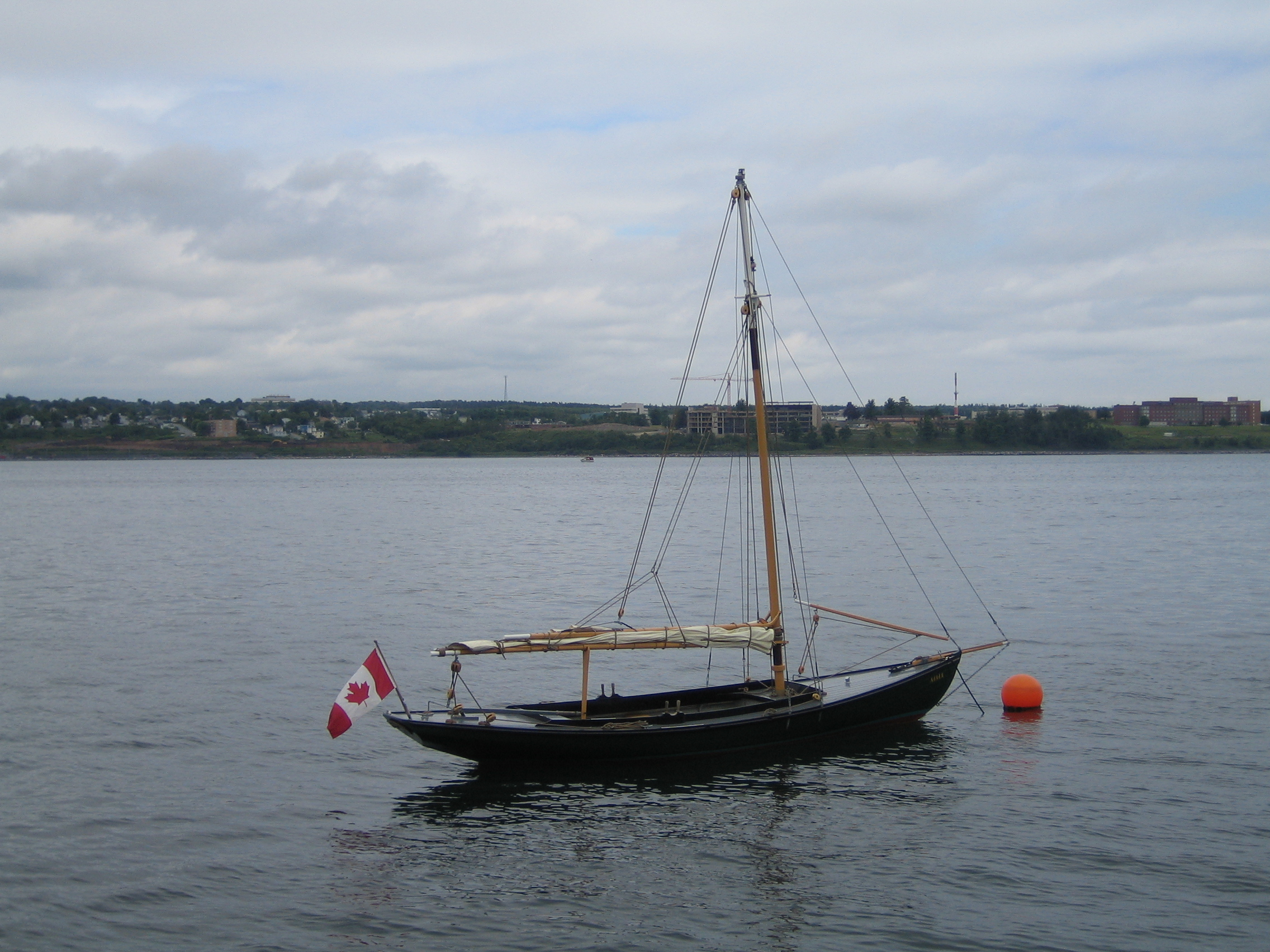 Sloop Windekilde, a replica of a 1890s sloop constructed by the Maritime Museum of the Atlantic and moored by the museum on the waterfron in downtown Halifax, Nova Scotia. The sloop is named after Niels Windekilde Jannasch, the first director of the Museum.